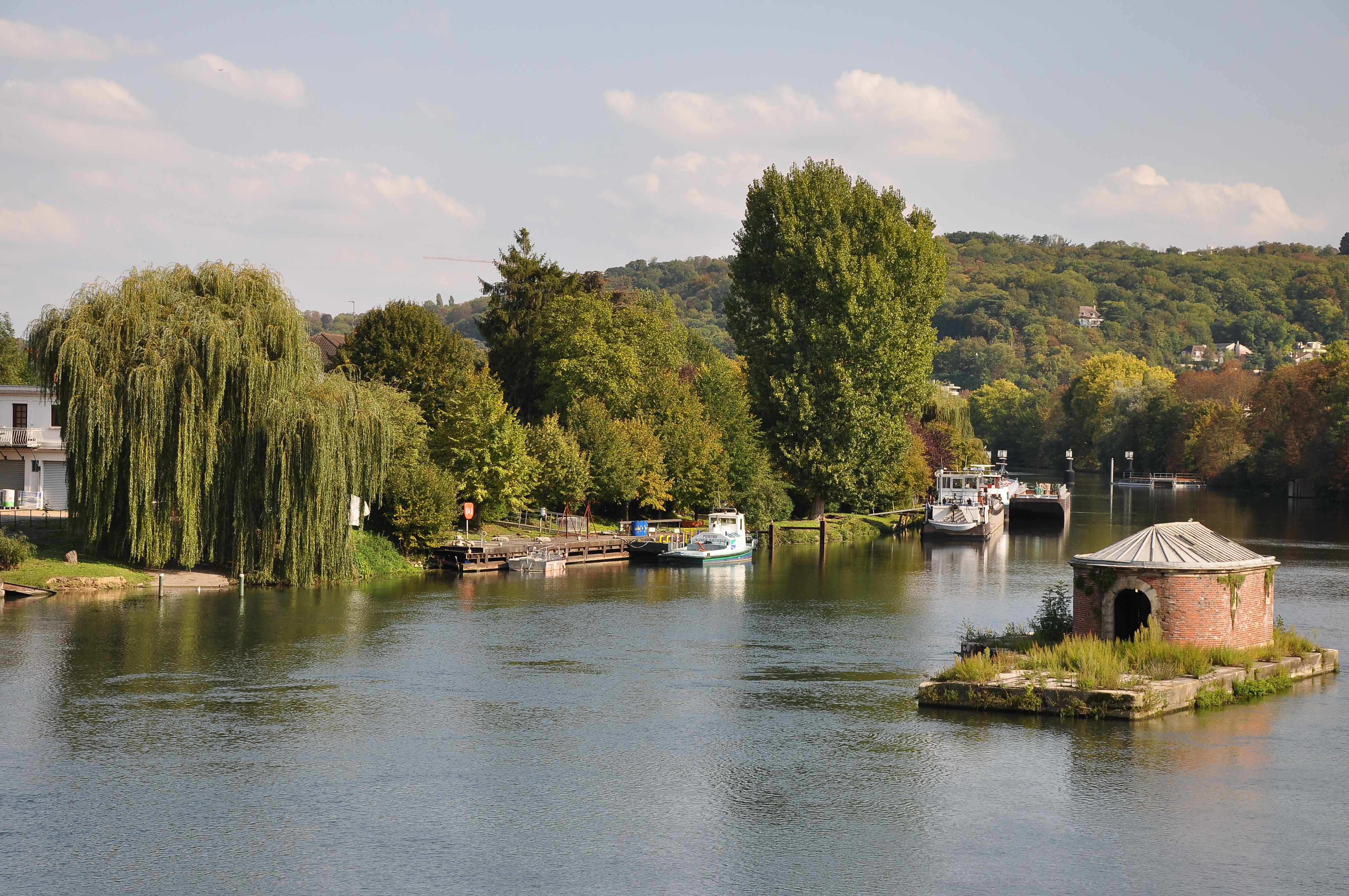 Banks of the Seine River in Bougival, department of Yvelines in France. On the Seine River we can see the rests of the Machine of Marly which pumped water to the ponds of the Chateau of Versailles.